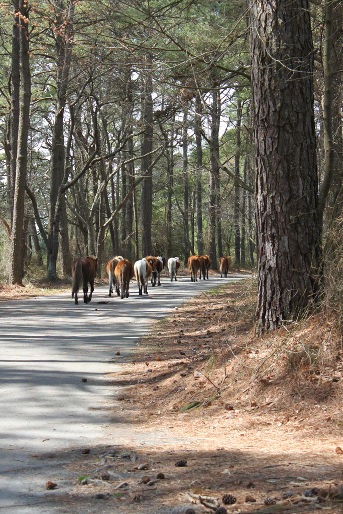 Chincoteague Ponies near Eagle's View Bayfront House Chincoteague/Assateague